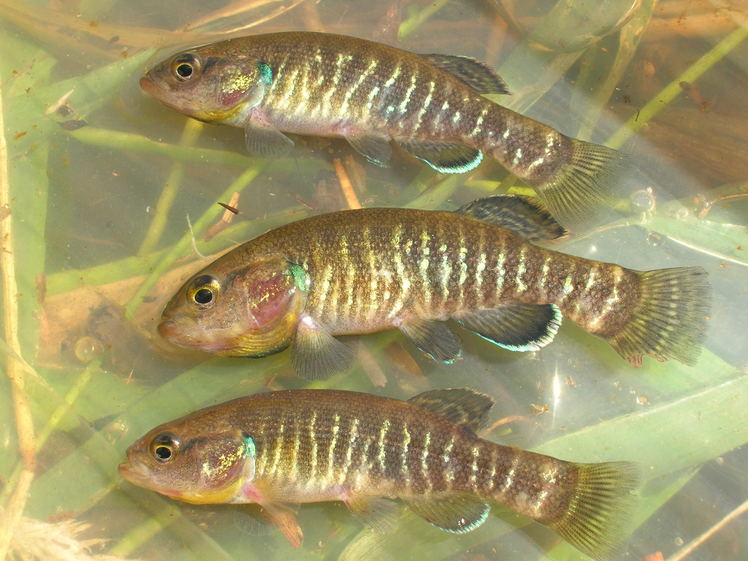 The Olympic Mudminnow (Novumbra hubbsi). Washington's only endemic fish. You thought one male was a spectaclur site? Look at these three good looking fellows together! Its not just salmon who dress up to spawn. From Dempsey Creek, Olympia WA, Thurston County.